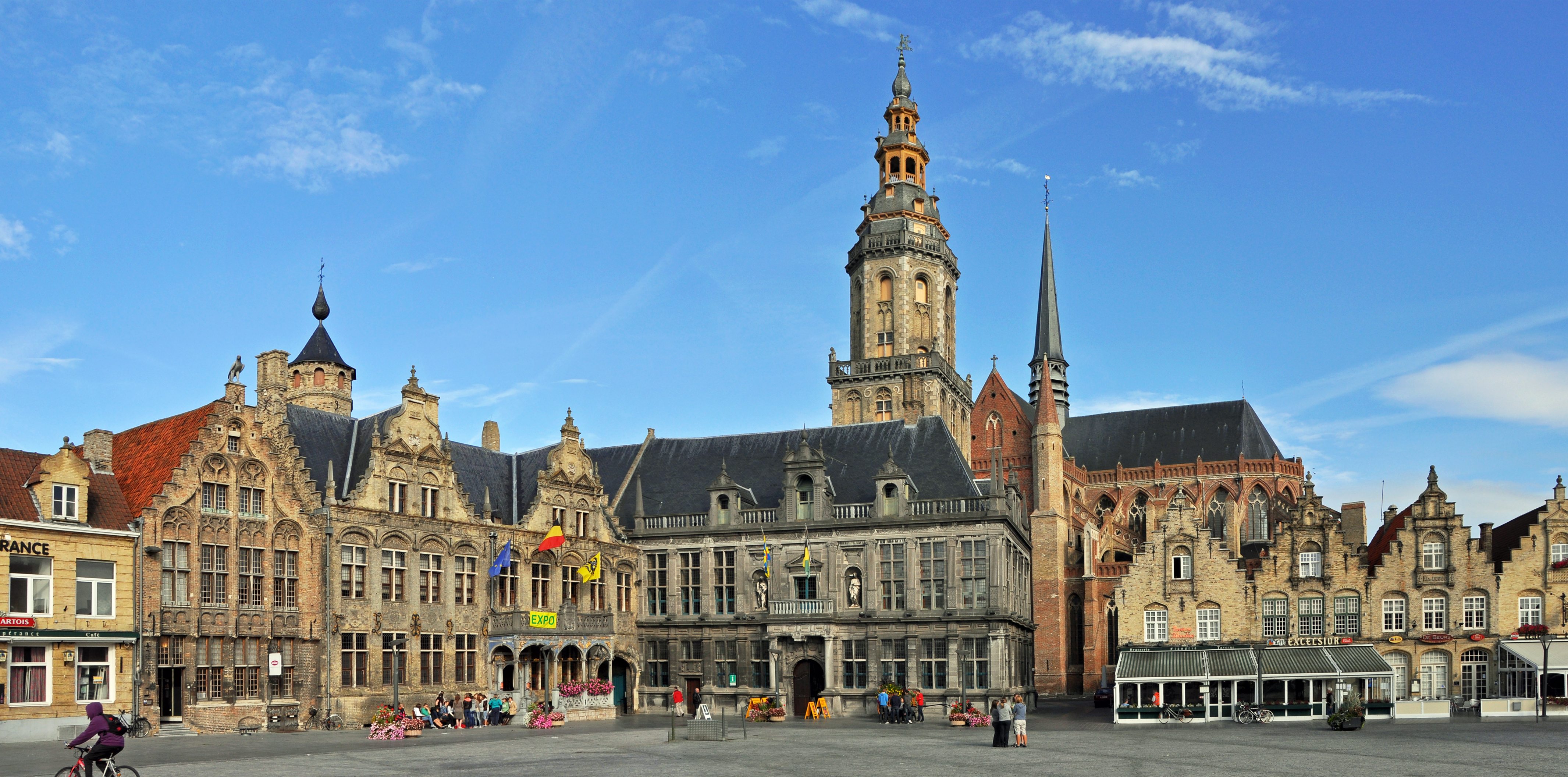 Veurne (Belgium): Market Place with in the middle the Landhuis and the belfry